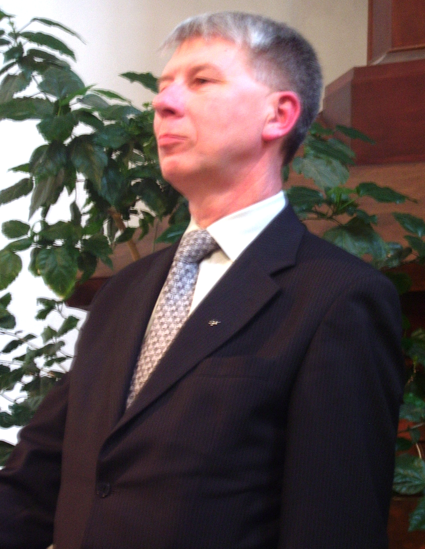 Üllas Linder is a cleric and a theolog of Estonia.